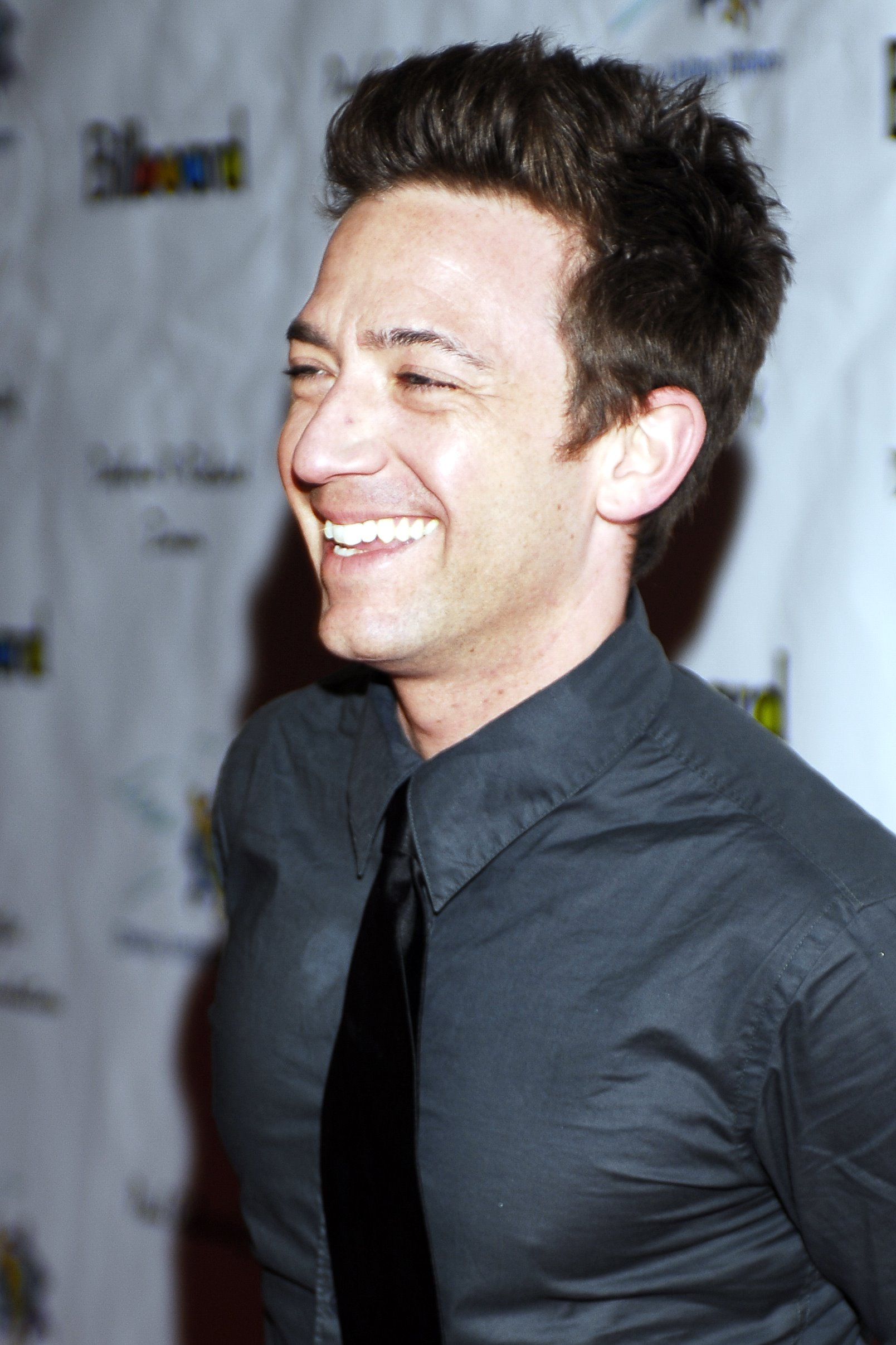 David Faustino at the 79th Annual Academy Awards Children Uniting Nations/Billboard afterparty.